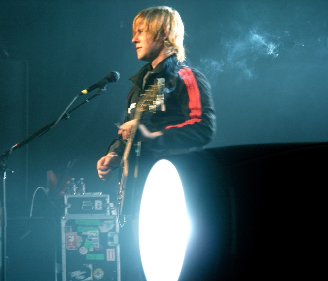 Interpol concert in Las Vegas, September 19, 2005.